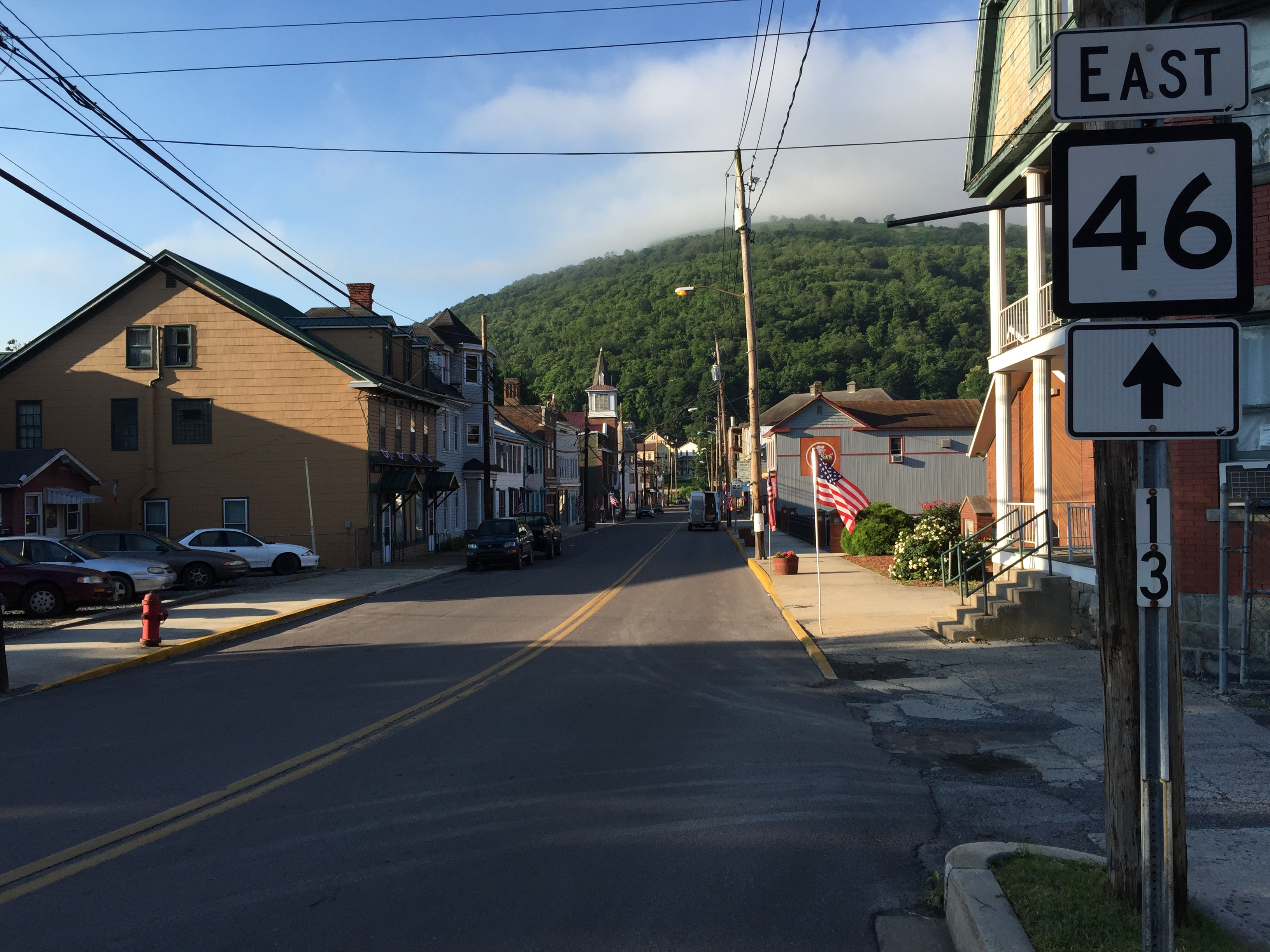 View east along West Virginia State Route 46 (Ashfield Street) just south of the North Branch Potomac River in Piedmont, Mineral County, West Virginia